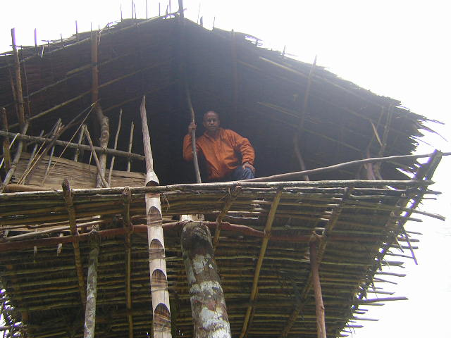 Treehouse of the Korowai tribe in Papua New Guinea.